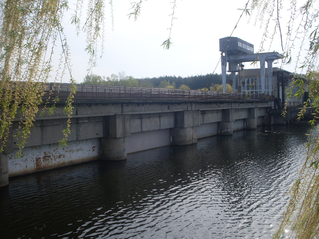 Vilshanka River, tributaries of the Dnieper River, Ukraine, Cherkasy region